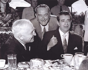 Picture shows Senator Lyndon Baines Johnson (center), former U.S. president Harry S. Truman (left) and the president of Mexico Adolfo López Mateos (right), in 1959.